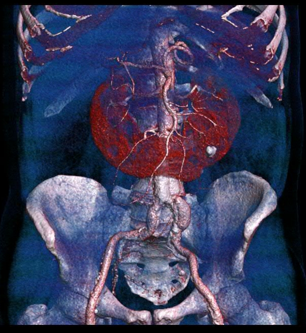 VR Rendering of a CT scan of a horseshoe kidney